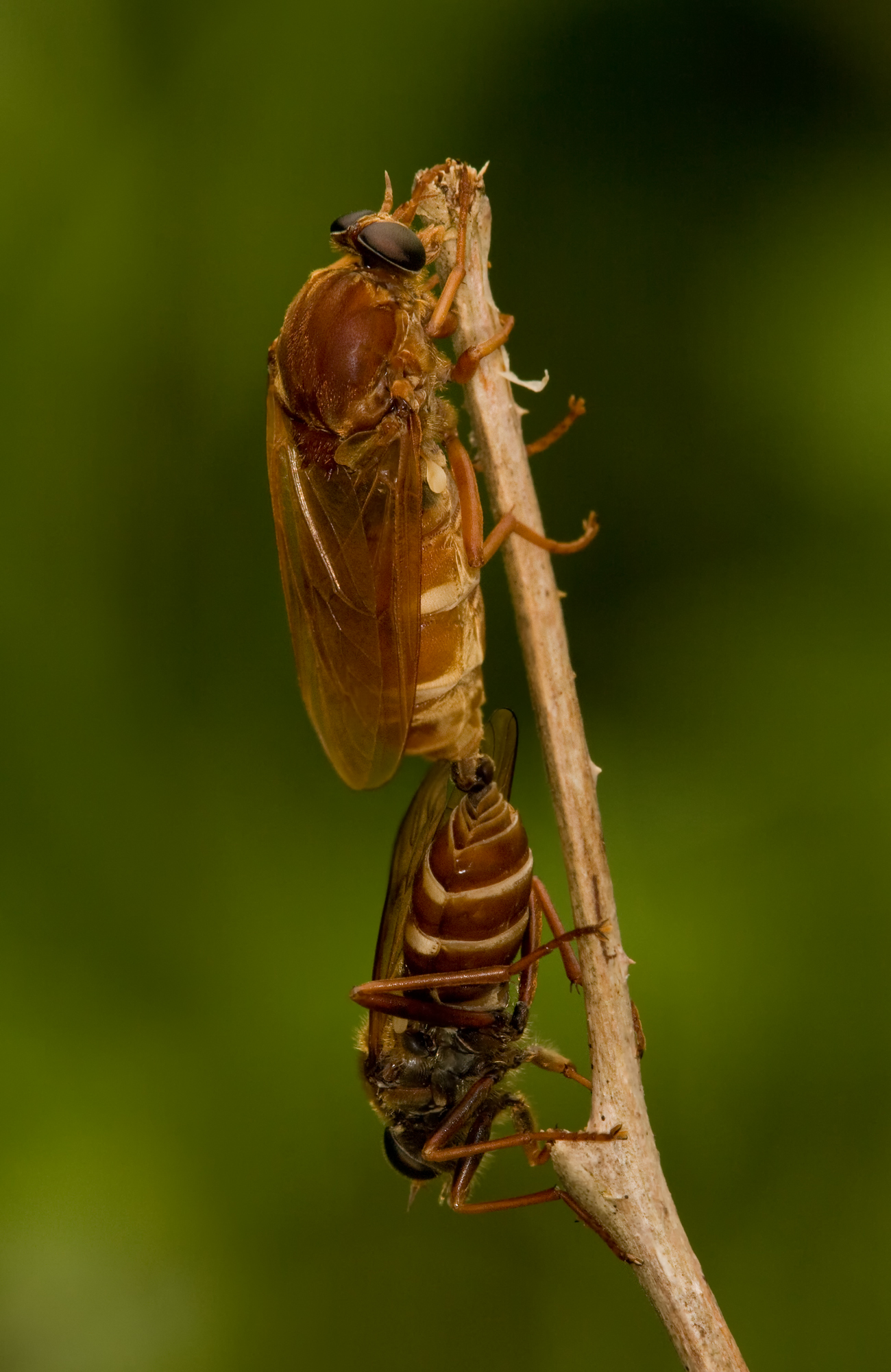 Awl-flies (Coenomyia ferruginea) at copulation. On top the female, below the male.